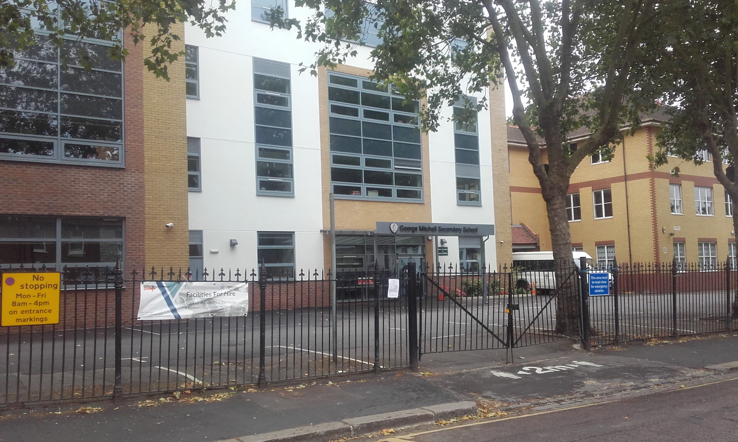 George Mitchell Secondary School in Farmer Road, Leyton, London E10 5DN. The school was completely rebuilt in 2017, replacing the old elementary school buildings that opened in 1903; the only survivor seems to be the playground railings.